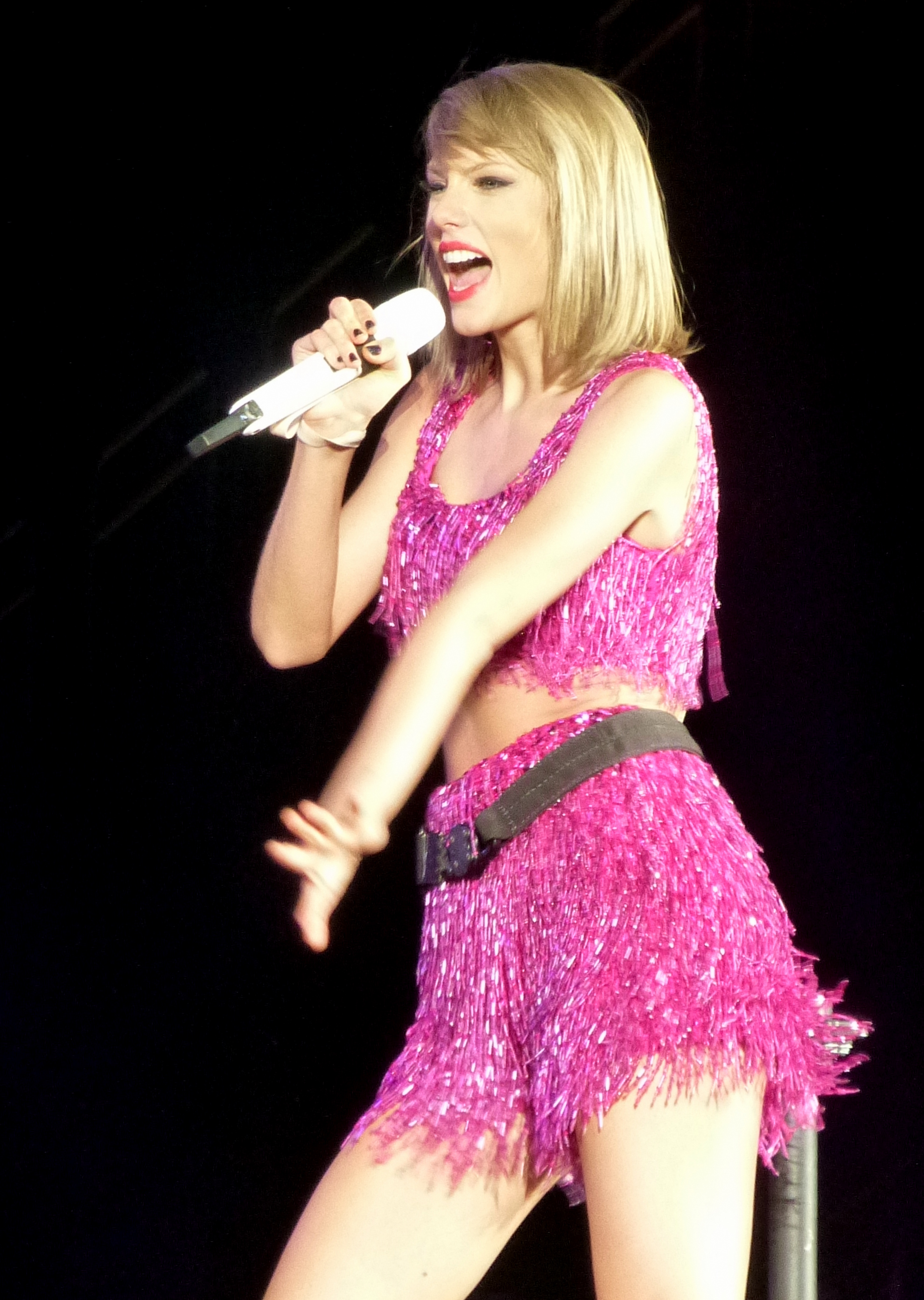 Taylor Swift 1989 Tour at Ford Field in Detroit, 5/30/15